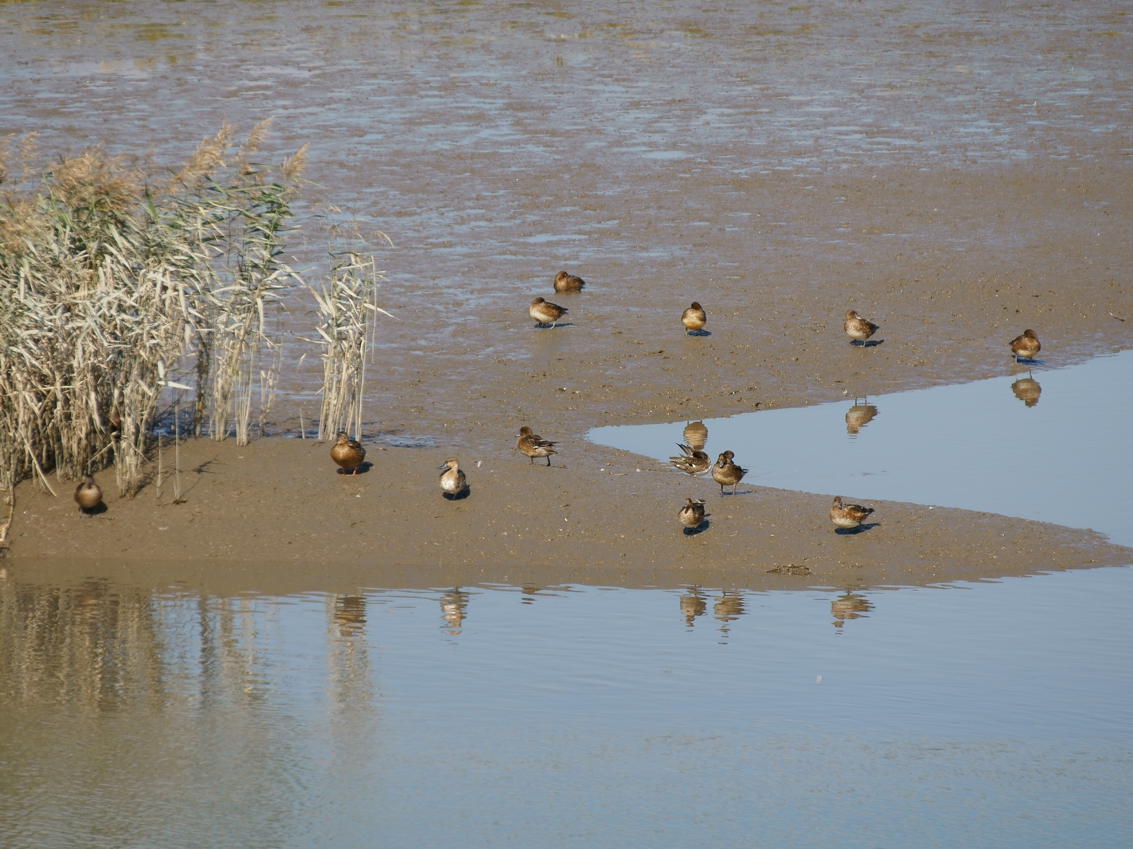 Mudflat and mallards(Anas platyrhynchos) at Kase River, Saga city.